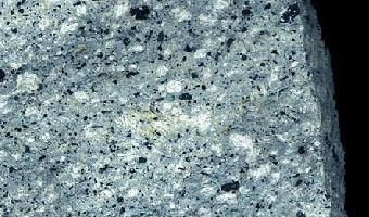 Neogene Andesite, Krupina, Štiavnické vrchy Mt., Slovakia.